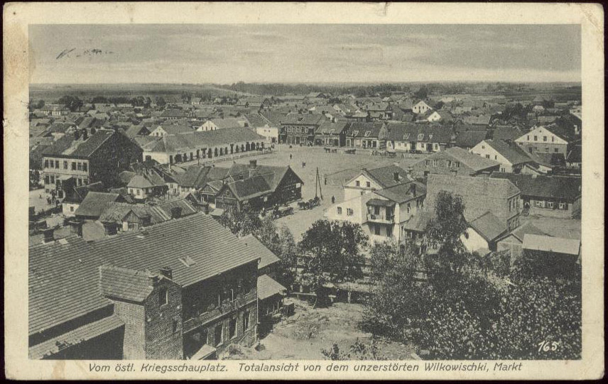 Vilkavishkis (WWI Fieldpost 1916, Postcard)